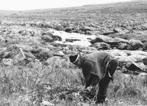 Nils-Aslak Valkeapää cuts willow to build a fire to make some coffee at the foot of Visdni [sic] fell in Enontekiö, Finnish Lapland. Sourceː Finnish Heritage Agency